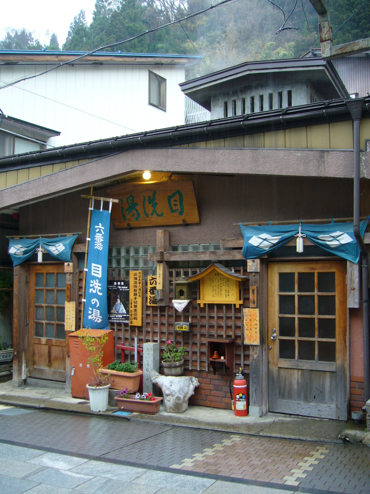 Mearaiyu,A public bath of Shibu hot spring.yamanoutchi-town,nagano-pref.,japan